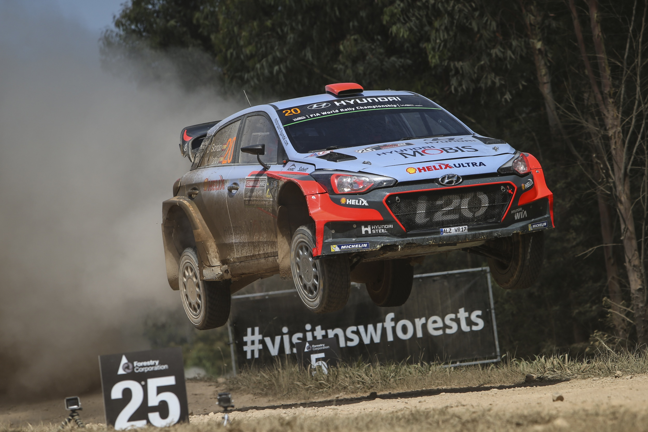 Dani Sordo flying in Australia 2016.